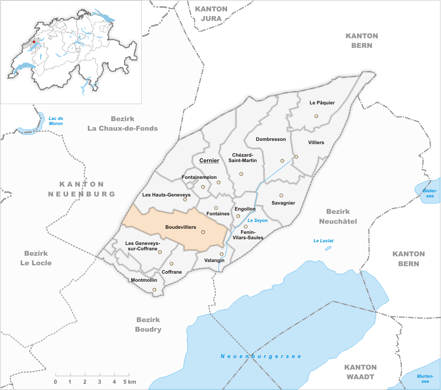 Municipality Boudevilliers